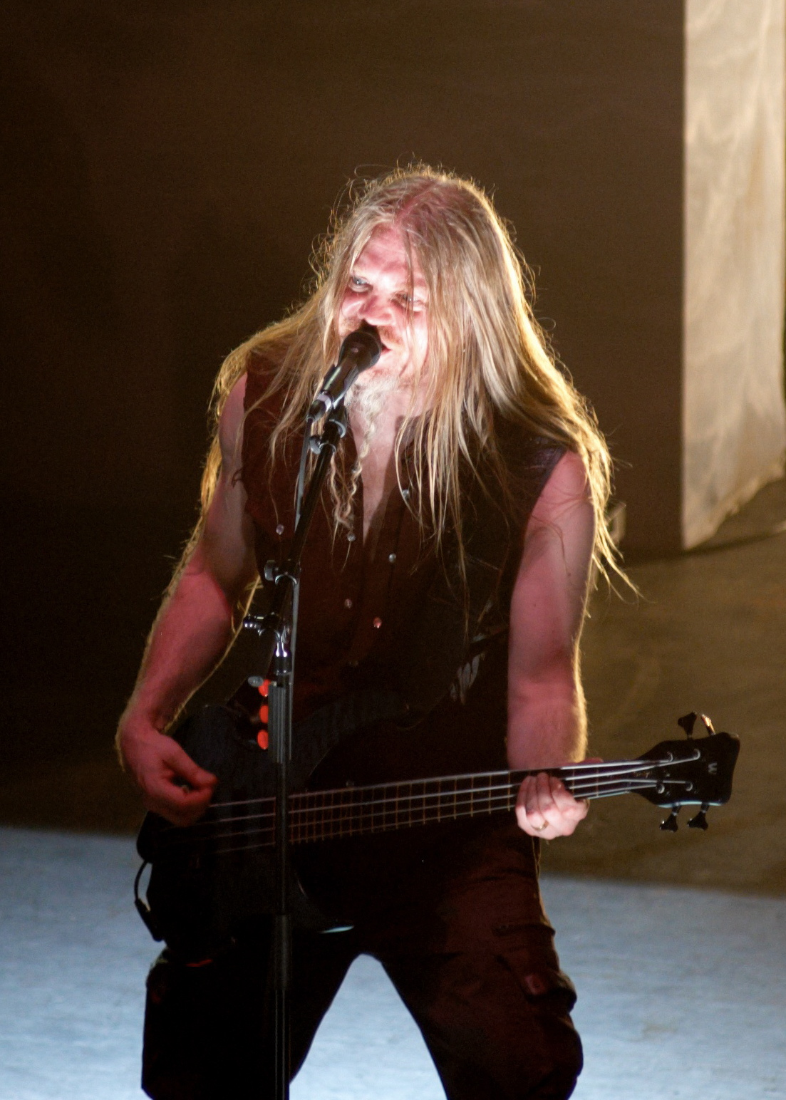 Tuomas Holopainen playing keyboards at a Nightwish concert at The Palais in Melbourne, Australia, in January 2008.